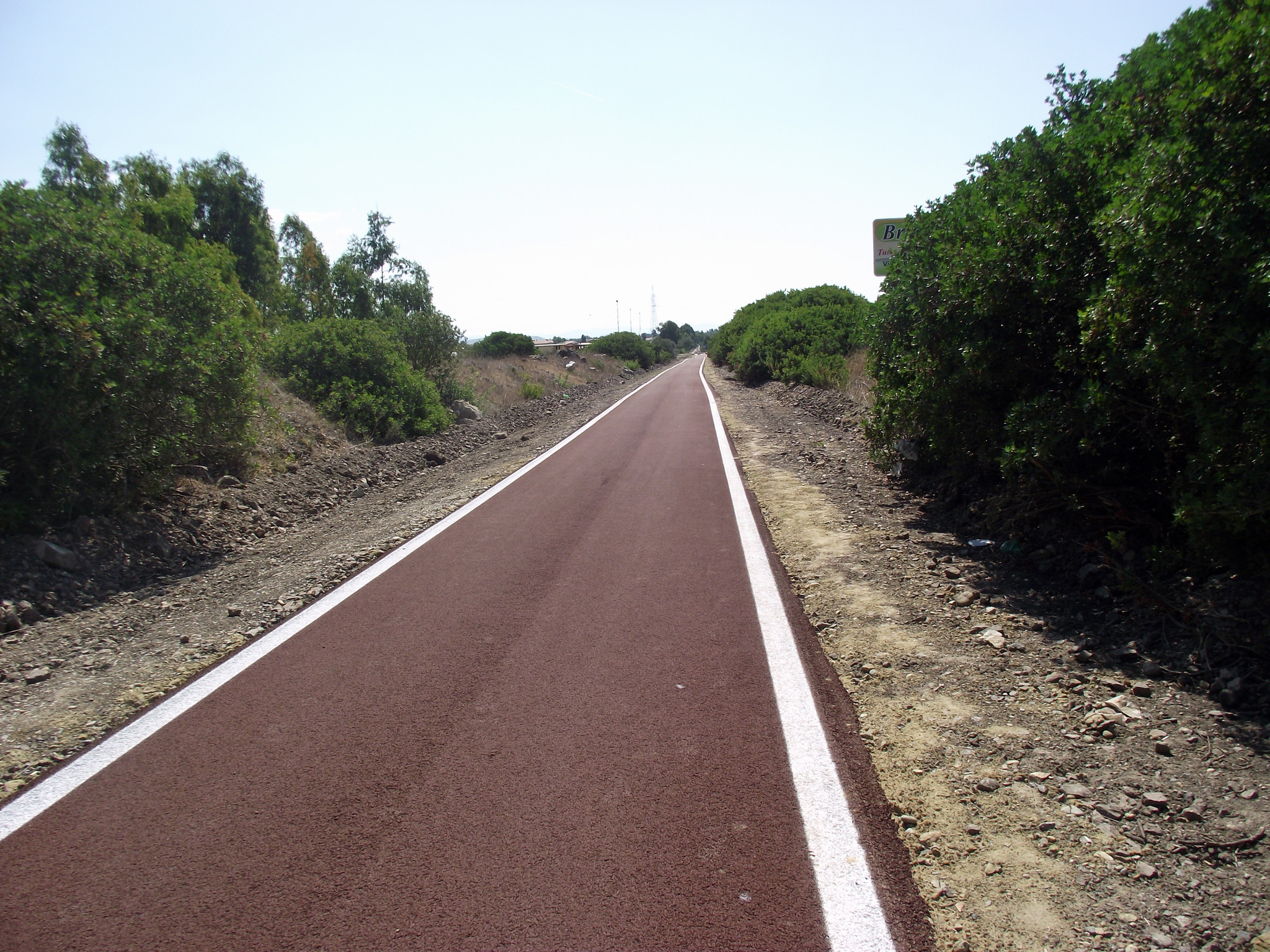 Bikeway between Carbonia and San Giovanni Suergiu, in Sardinia, Italy. It uses the old railway path of the dismantled railway San Giovanni Suergiu-Iglesias. The stretch photographed is located nearby the San Giovanni Suergiu small industrial park